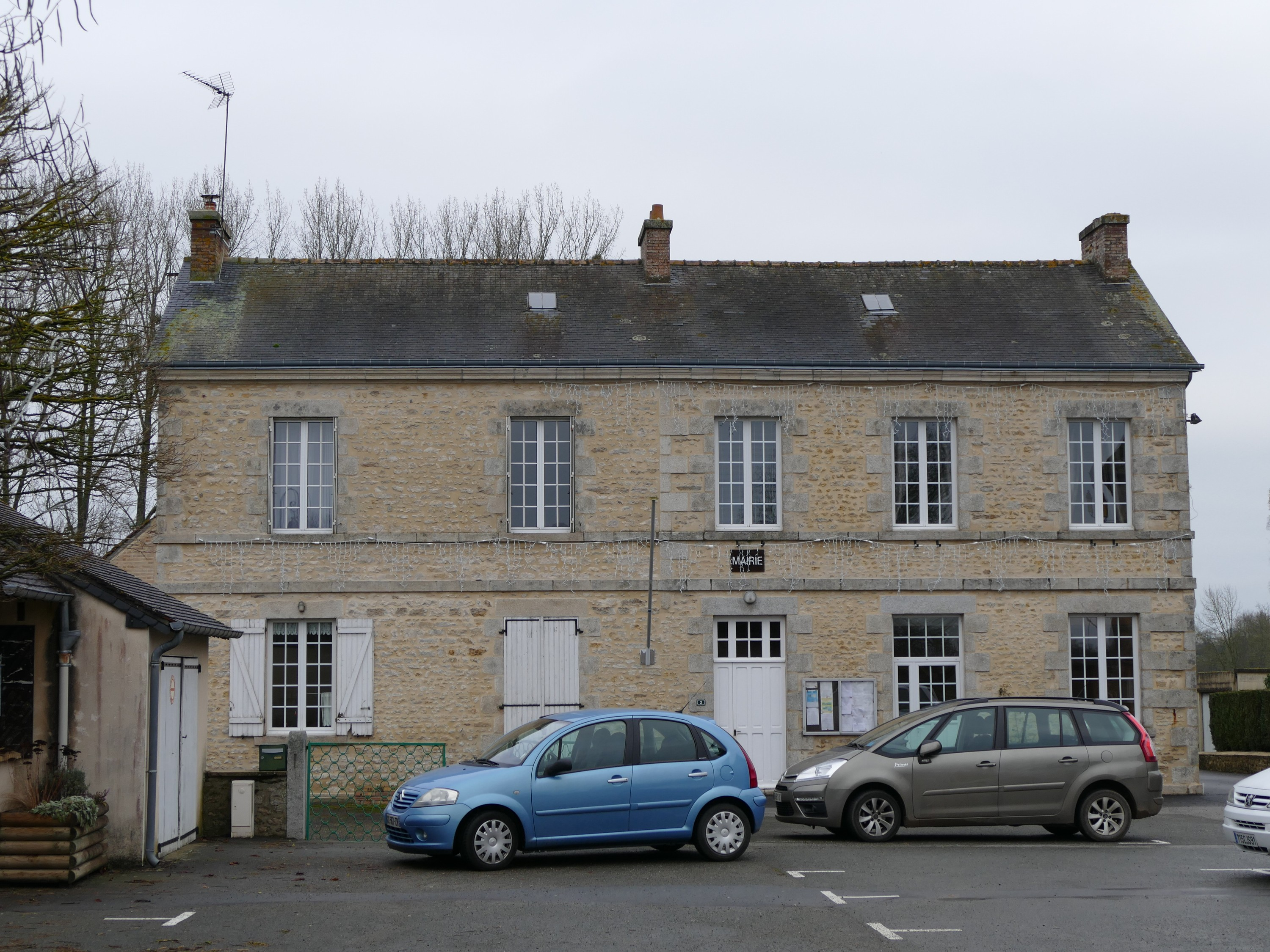 The city hall in Semallé (Orne, Normandie, France).